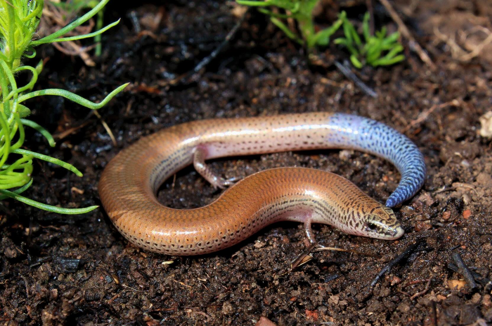 Montane Dwarf Burrowing Skink (Scelotes mirus) This species prefer montane grassy areas. Most species from this genus give birth to live young.